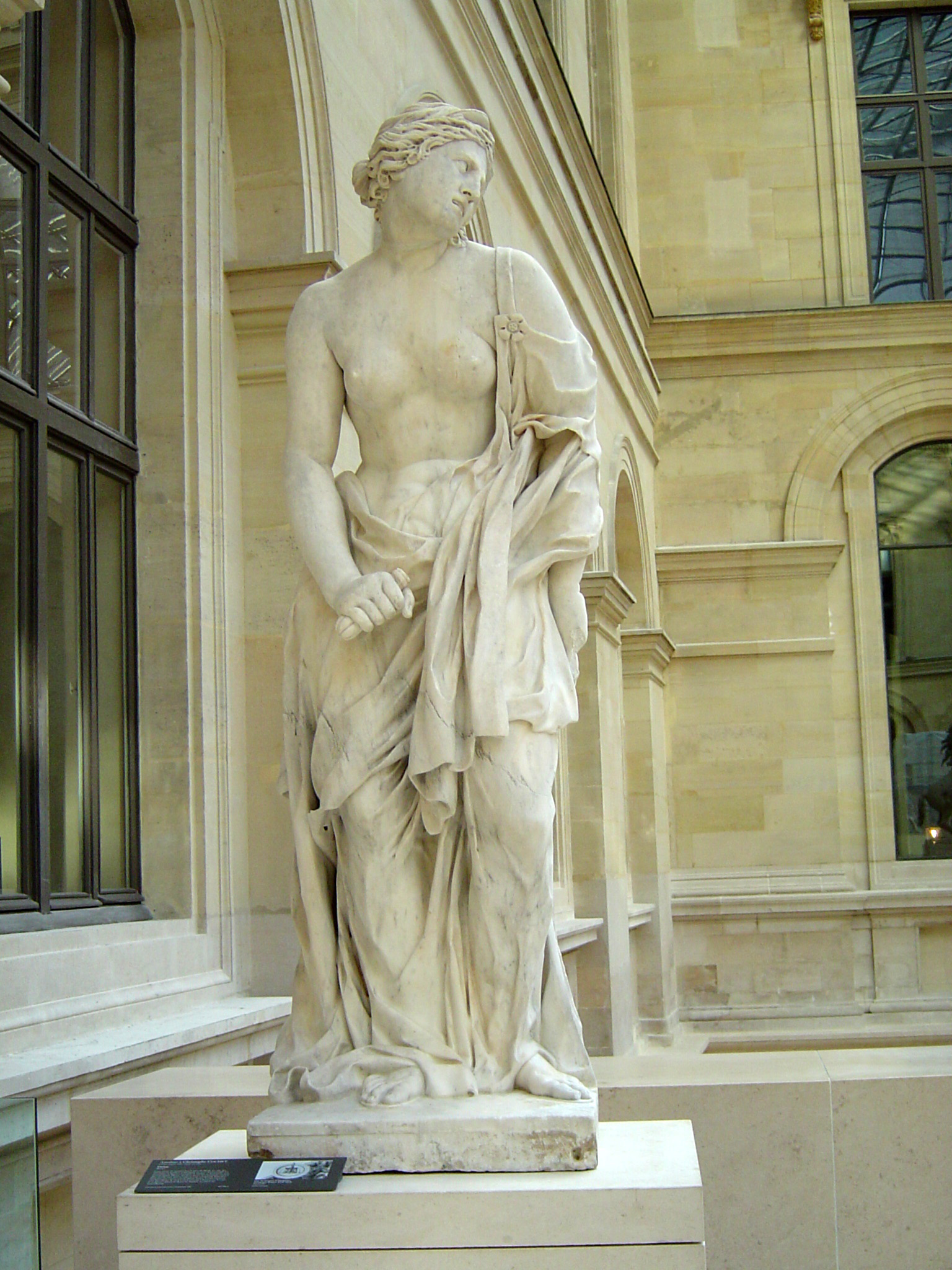 Dido. Marble, attested in 1707 in the park of Marly.